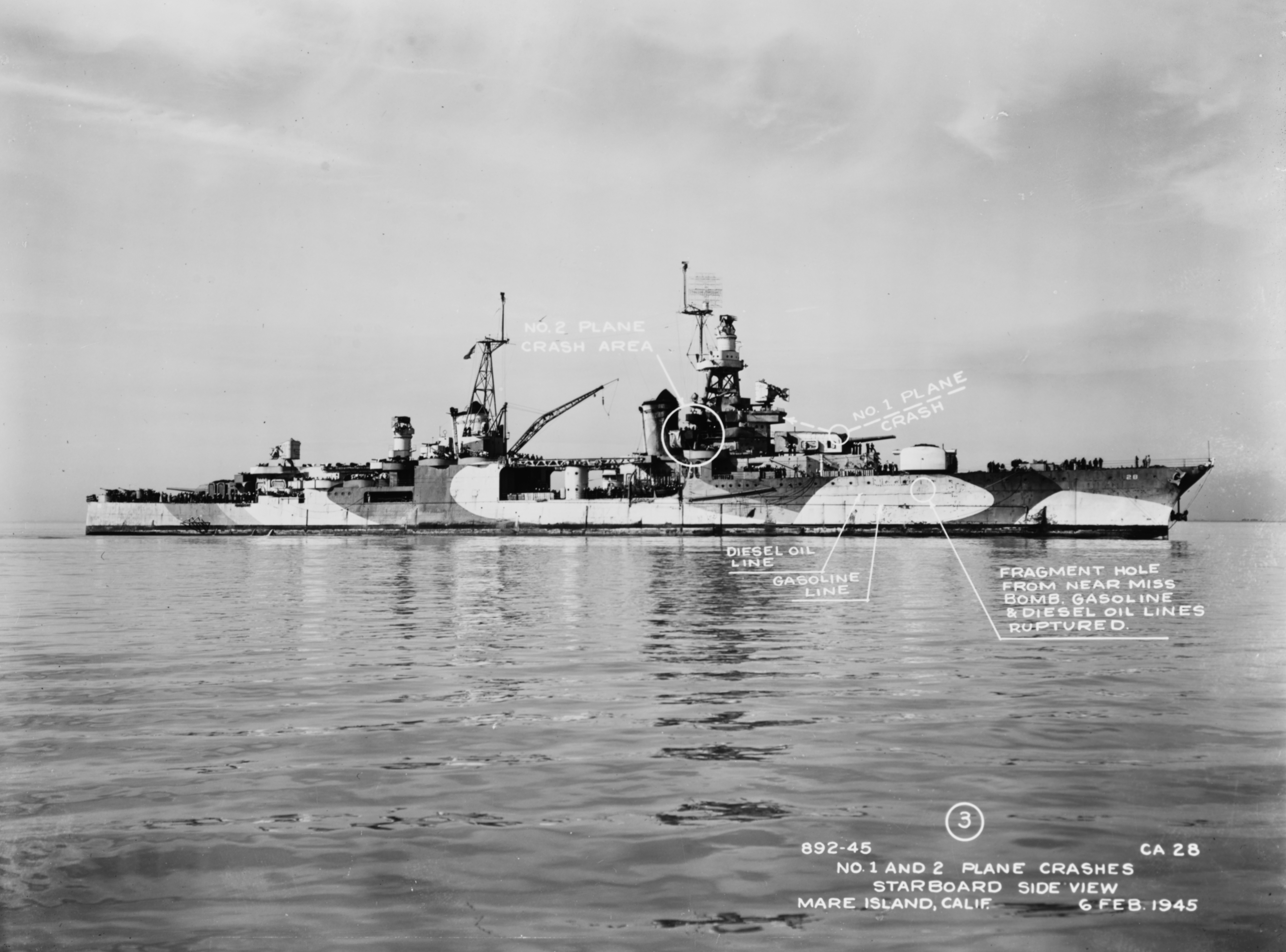 The U.S. Navy heavy cruiser USS Louisville (CA-28) arrives off the Mare Island Naval Shipyard, California (USA), on 6 February 1945 to receive repairs for damage inflicted by two Kamikazes a month earlier. The photograph is annotated with details about the suicide plane crashes and the damage inflicted. The ship's camouflage scheme is probably Measure 32, Design 6d.